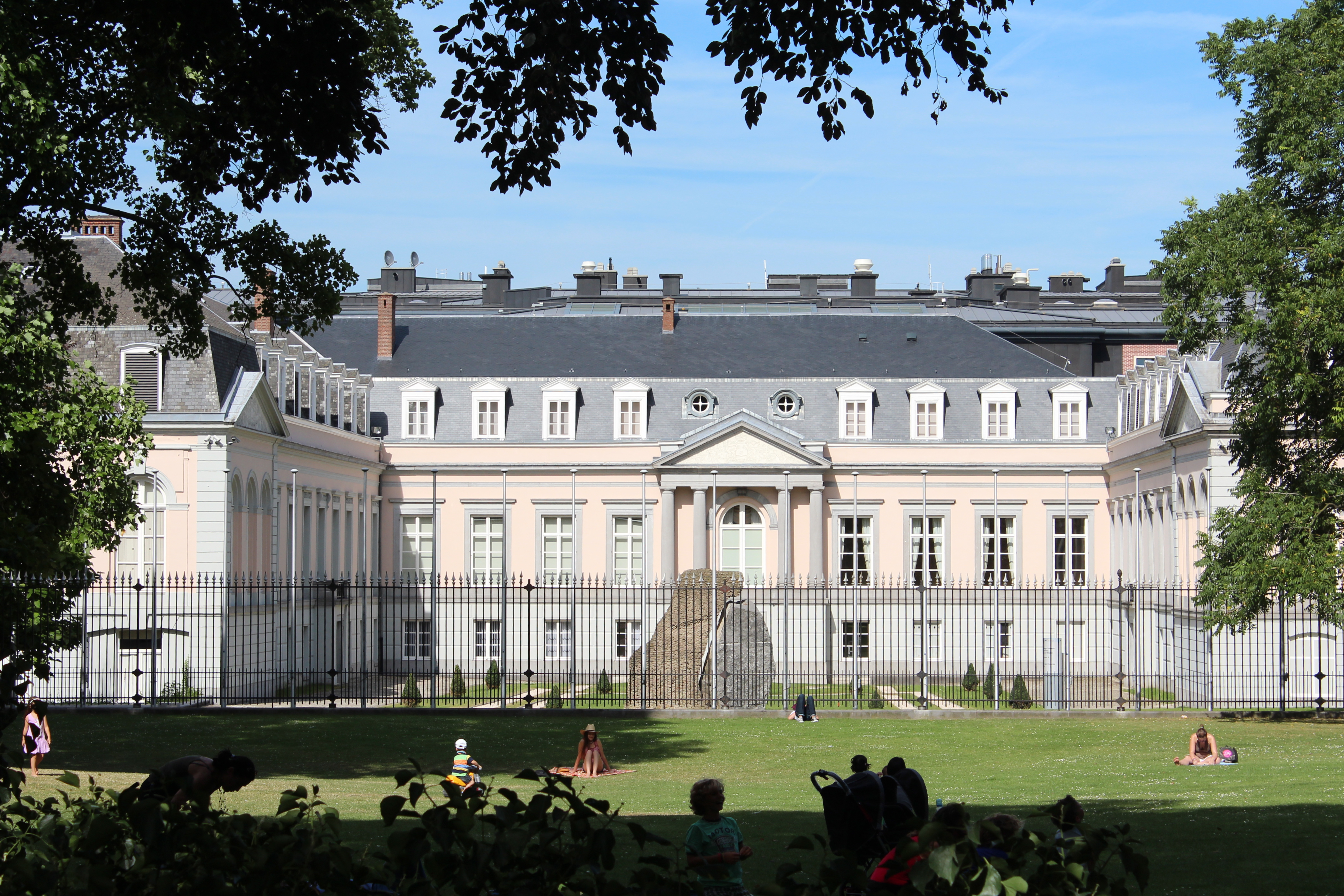 Palais d'Egmont - Egmontpaleis, Brussels.